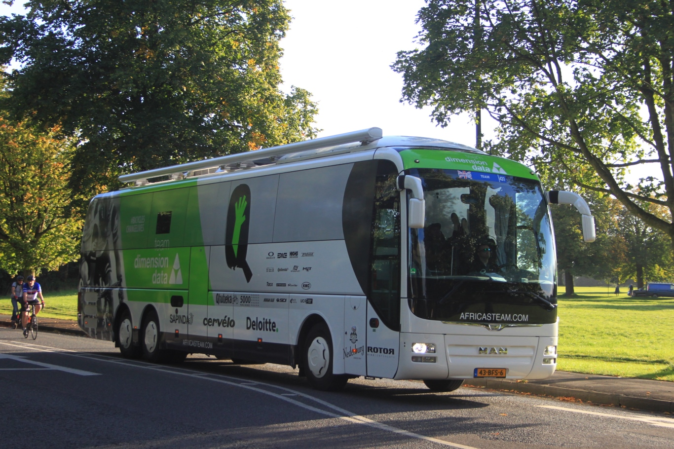 The Dimension Data cycling team leave Bristol's Durdham Down and head up to London for the final stage of the 2016 Tour of Britain.